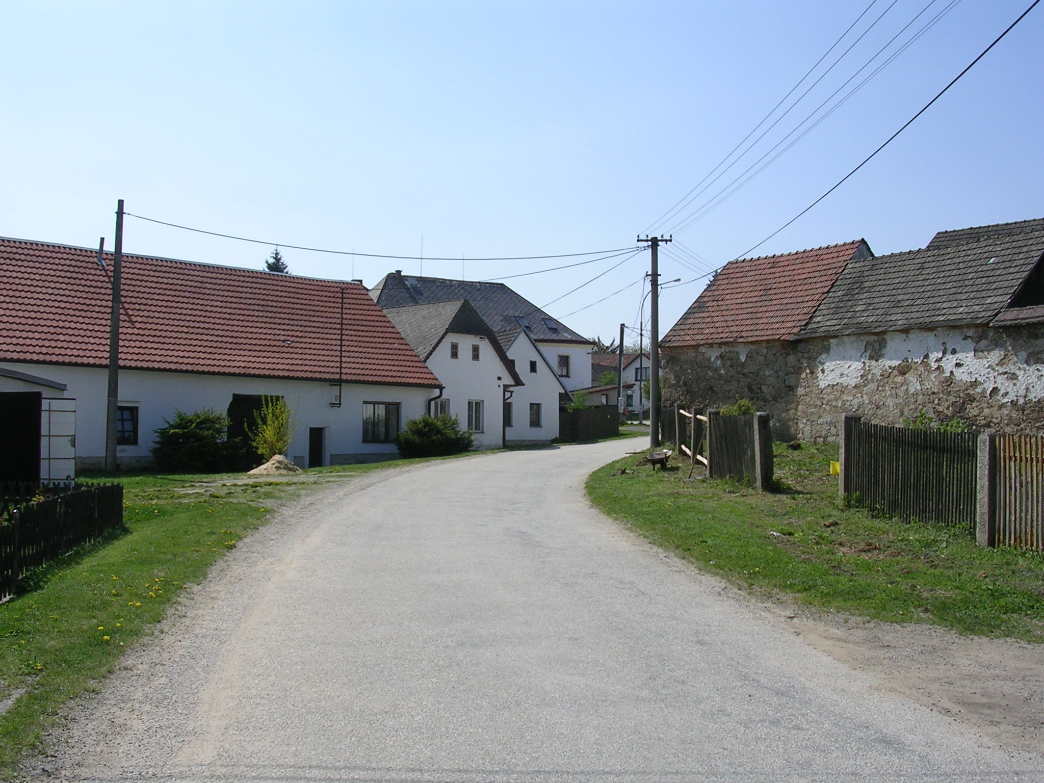 Strmilov-Palupín, South Bohemian Region, the Czech Republic.